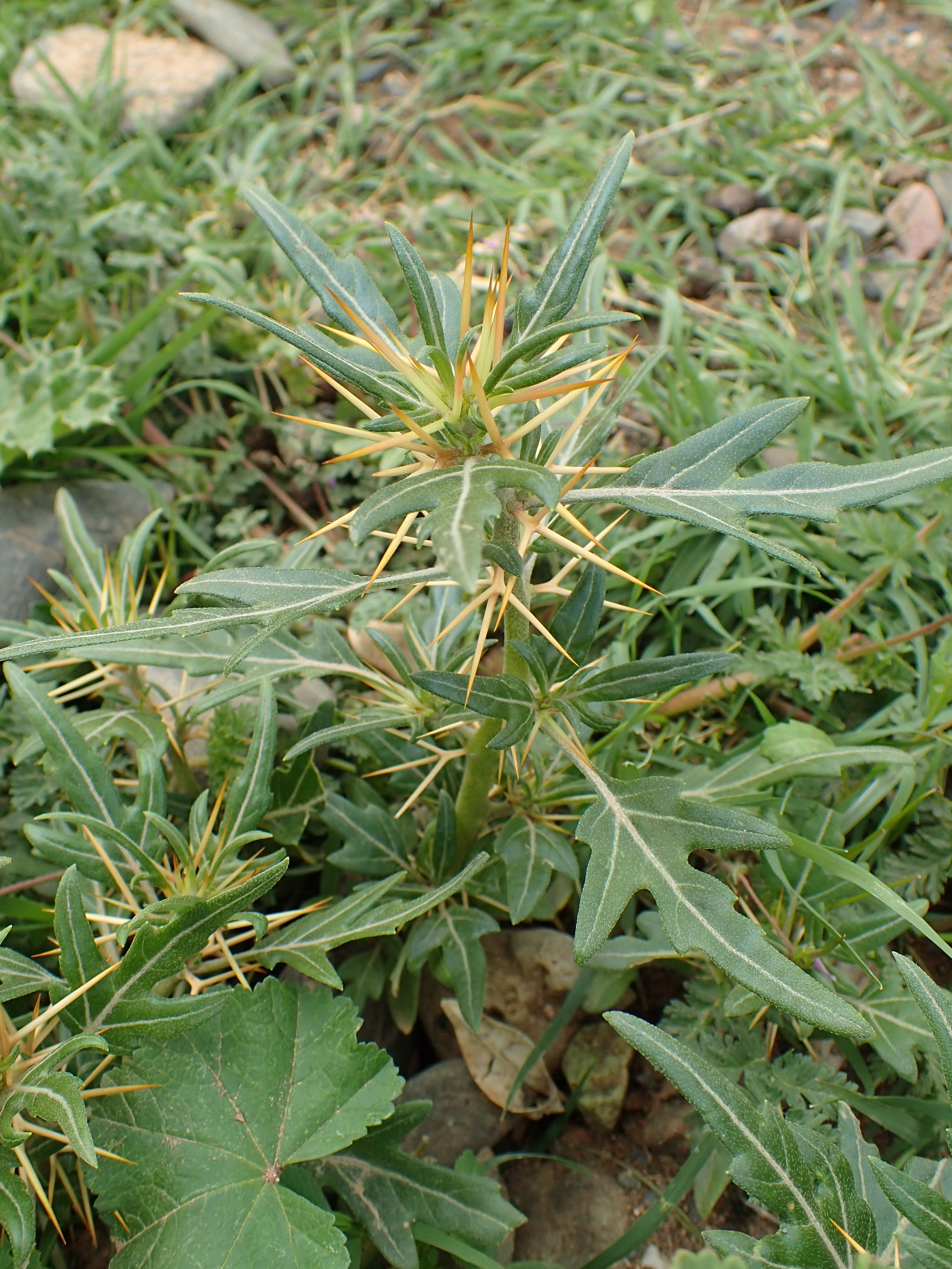 Xanthium spinosum in Louquid (Marrakesh-Safi, Morocco)